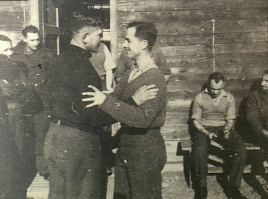 POWs at Camp 1046GW Maribor